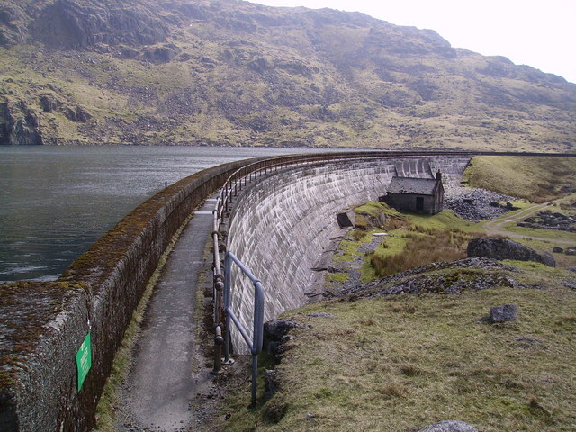 Dam, Seathwaite Tarn